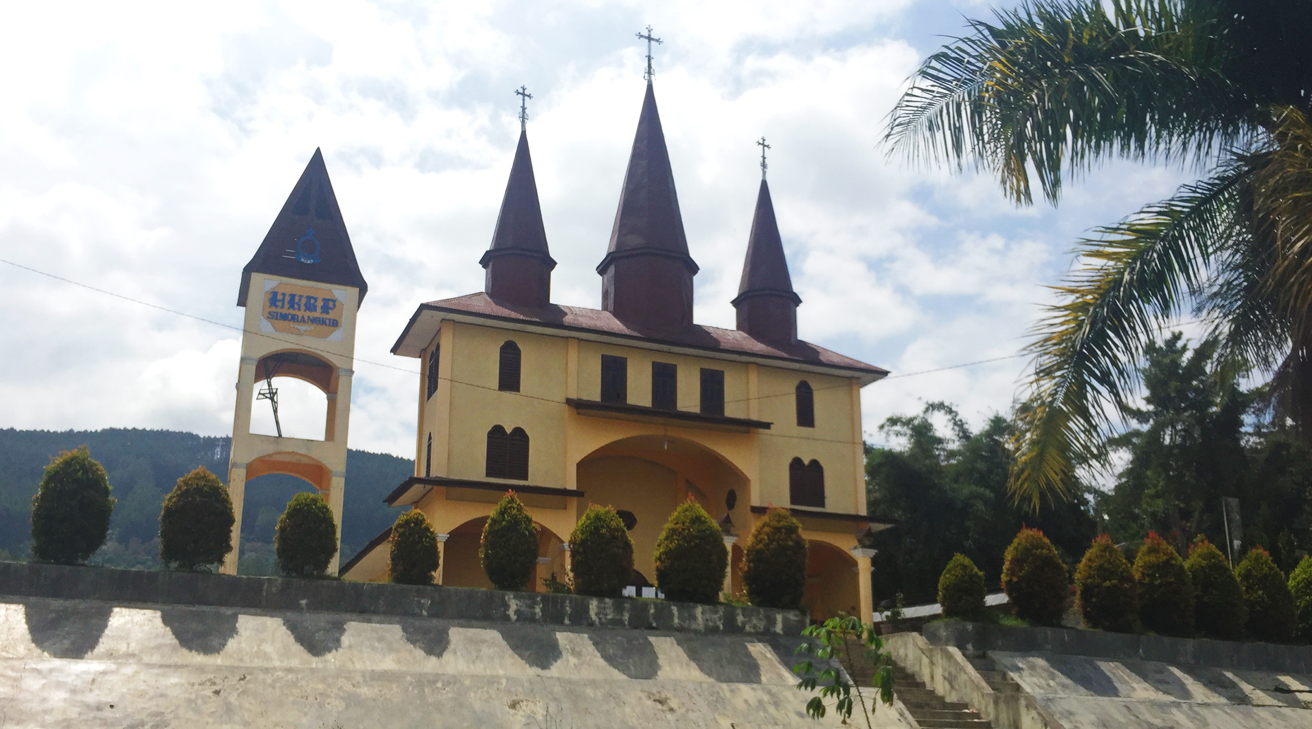 HKBP Simorangkir, Church in Simorangkir, Siatas Barita, North Tapanuli